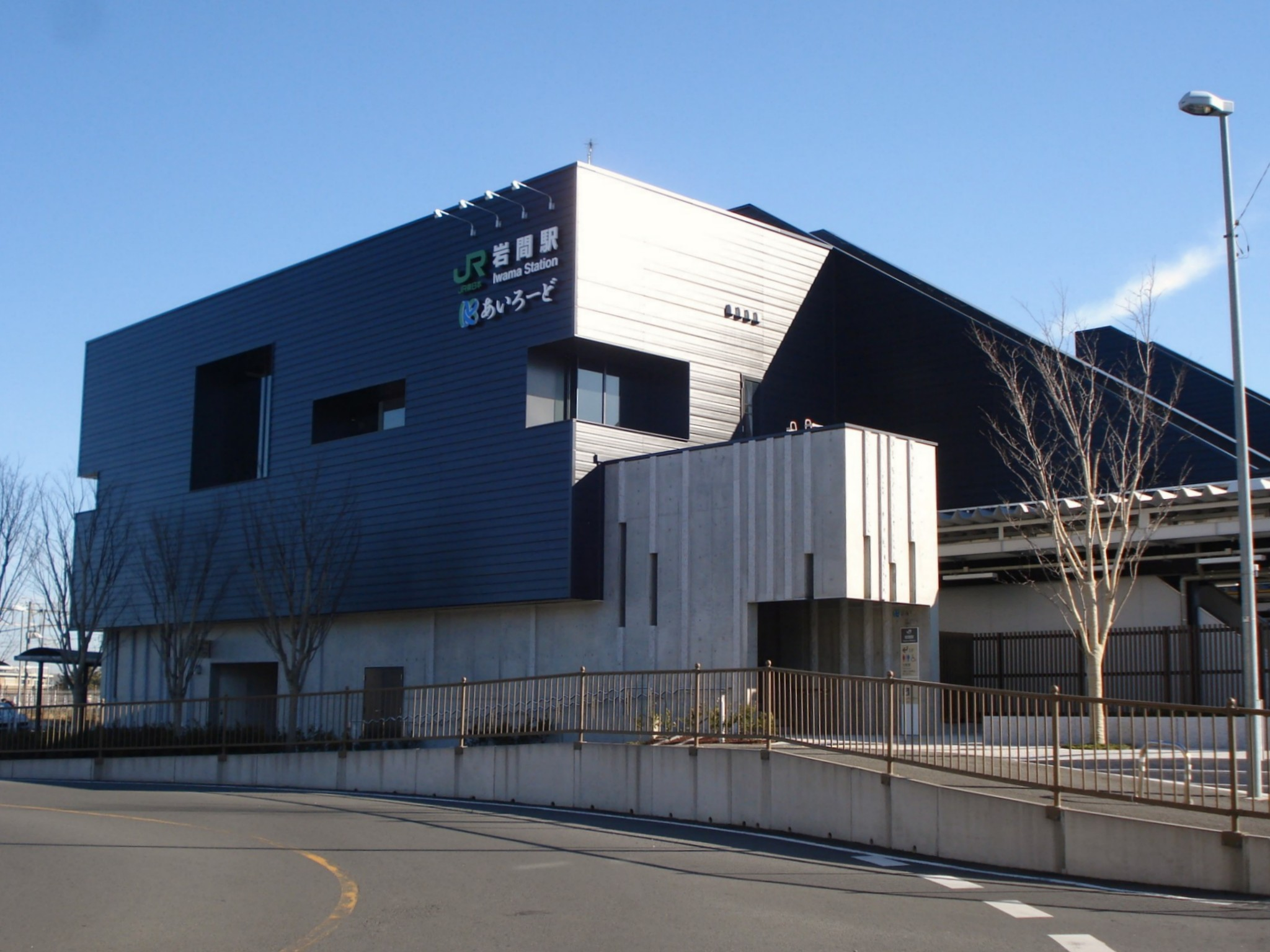 Joban line Iwama station rebuild west exit (Kasama city, Ibaraki, Japan)